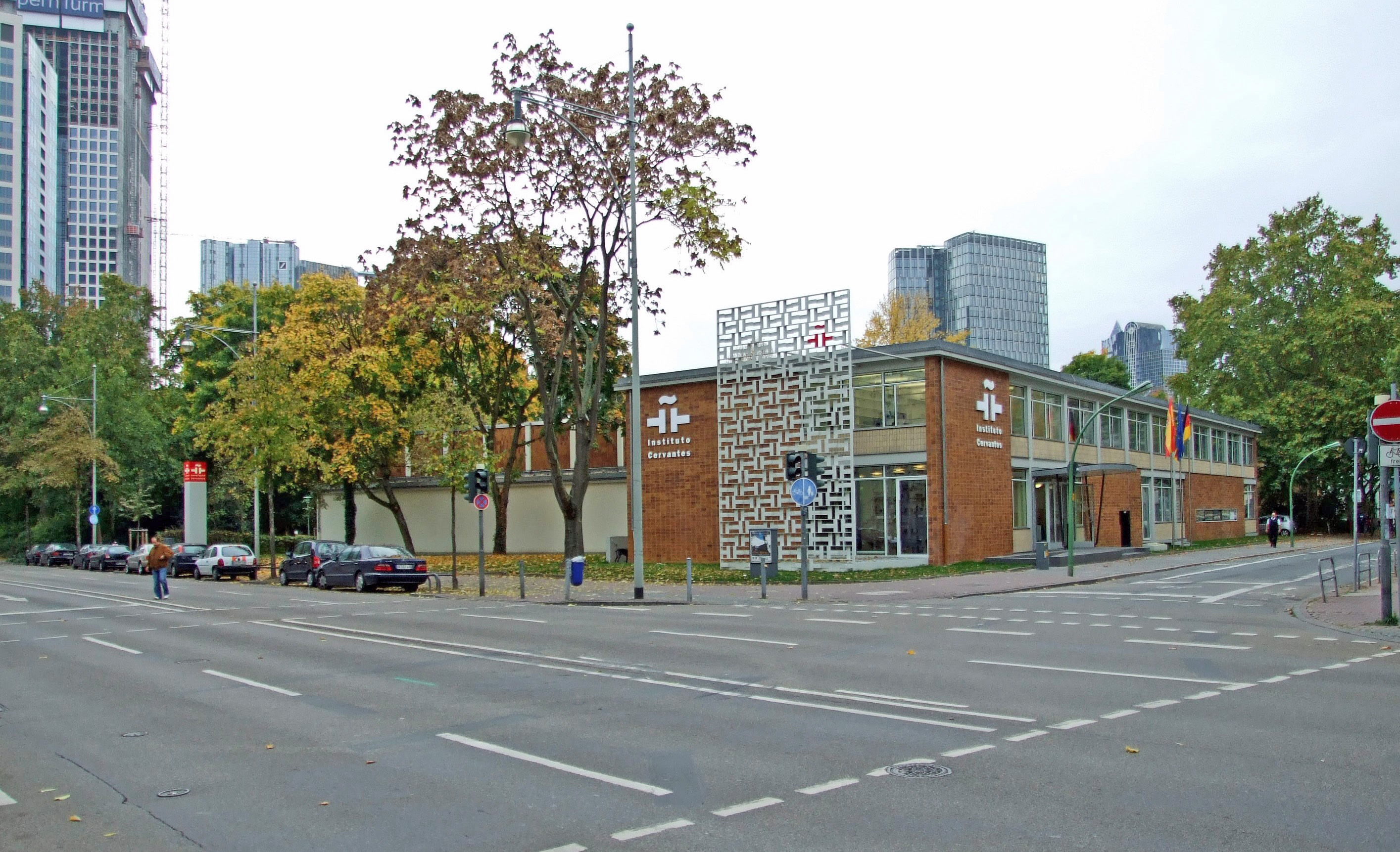 Instituto Cervantes (former Amerika-Haus) in Frankfurt am Main